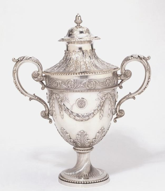 Cup and cover, 1771-1772 (hallmarked), Louisa Courtauld and George Cowles V&A * Museum no. 804:1, 2-1890 Techniques - Silver, with chased and applied decoration Place -London, England Dimensions - Height 38.1 cm Object Type - This cup and cover in the vase form would have been used to ornament the mantelpiece in a late-18th-century drawing room or a dining-room buffet. The use of such a cup and cover in the home was purely decorative. Design & Designing -The design of this two-handled cup and cover demonstrates a typical feature of English Neo-classical silver, contrasting areas of plain, reflective surface with rich chased decoration. The acanthus leaves, swags, frieze and fluted ornament have been assembled to create a sophisticated object of high-quality craftsmanship. Vase Mania - The vase was arguably the most fashionable interior design accessory of the late 18th century, and a distinctive icon of the Neo-classical style. Inspired by the revival of interest in the ancient world, the vase was often based on engraved design sources of a later period. This silver cup and cover in vase form was at the top end of the market for such products, along with the ancient urns imported from Italy and the ormolu-mounted (gilded) hard-stone vases. People - Louisa Courtauld (born 1729 – died 1807) was a member by marriage of one of the most famous families of 18th-century goldsmiths. Her portrait, attributed to the society painter Johann Zoffany (1733-1810), but perhaps by Nathaniel Dance (1735-1811), shows a wealthy businesswoman, rather than a working silversmith. Louisa Courtauld ran the firm after the death of her husband, Samuel (1720-1765), at first alone, but from 1768 to 1777 in partnership with the senior apprentice, George Cowles. Later she formed a short-lived partnership with her son Samuel. Women were active in 18th-century London's business life. It has been estimated that one third of all women of property ran a business.